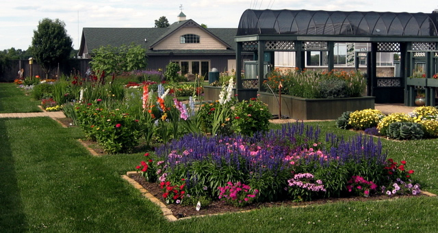 Each 10 by 10-foot display bed showcases the creativity and diversity of the community.